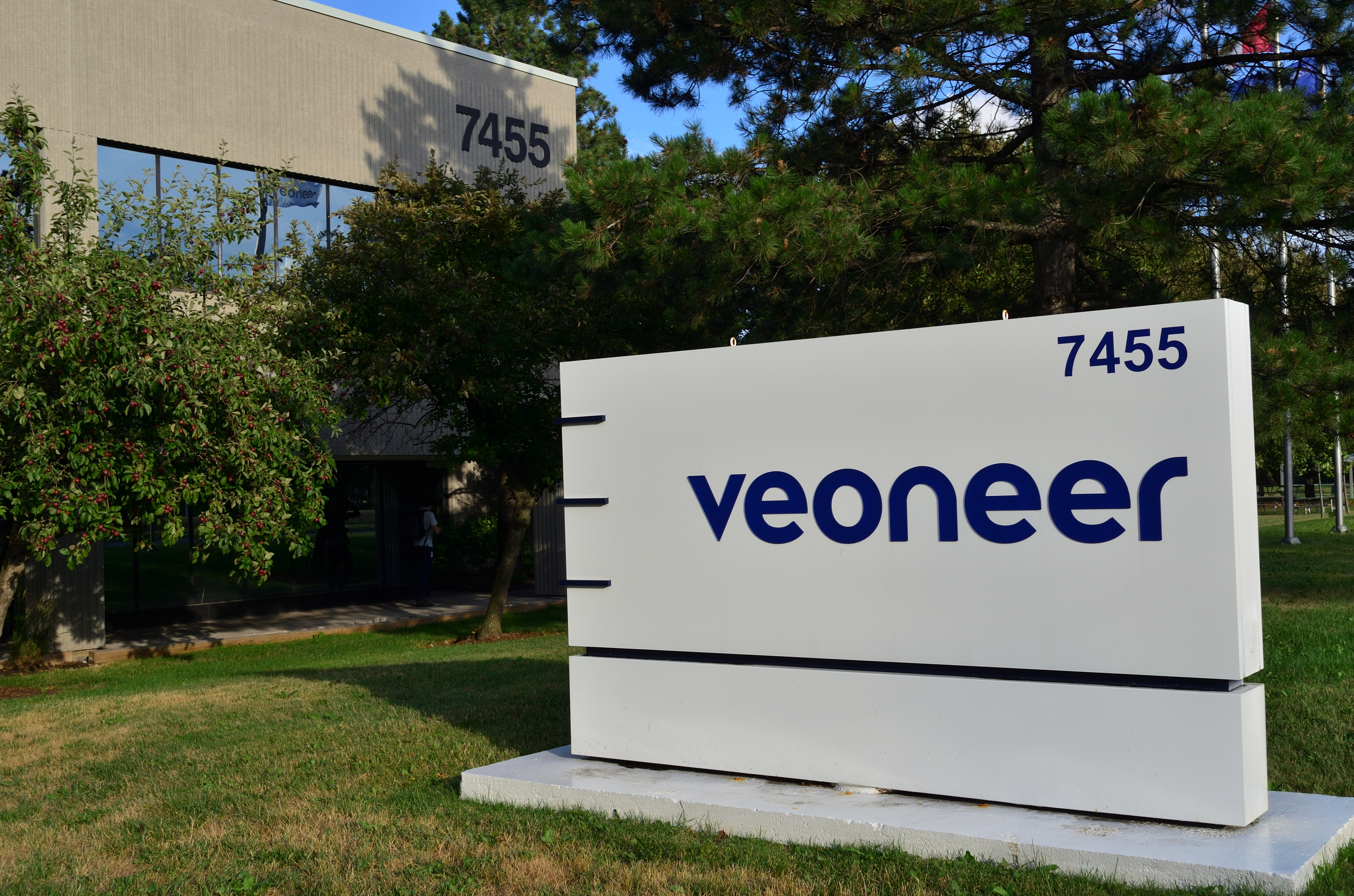 Veoneer Canada - Address: 7455 Birchmount Road, Markham, ON L3R 5C2